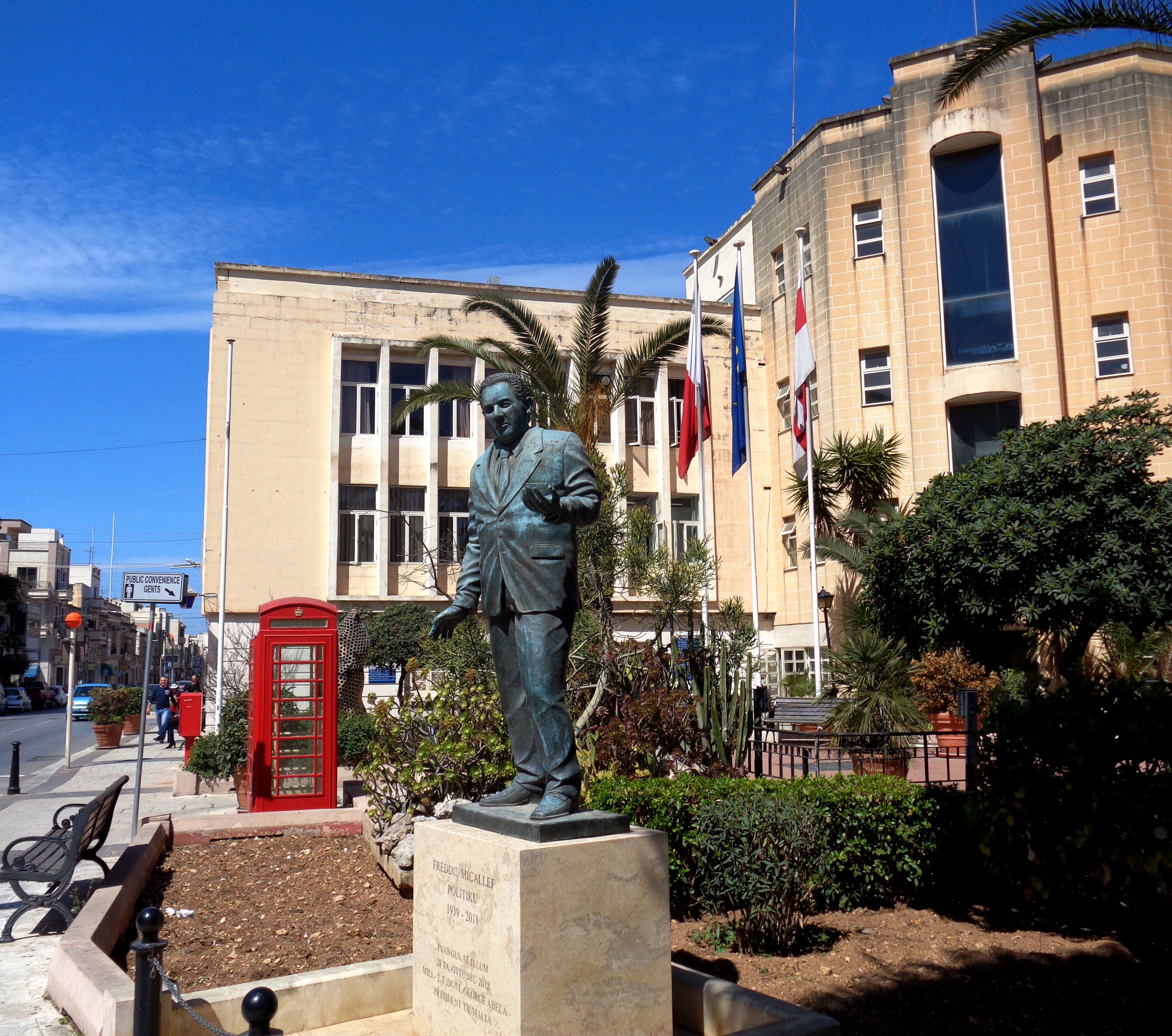 Freddie Micallef Bust in Malta